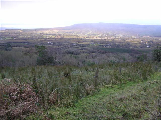 Ardmoneen Townland Looking south-east; it was the first glimpse of the sun that I got for the day